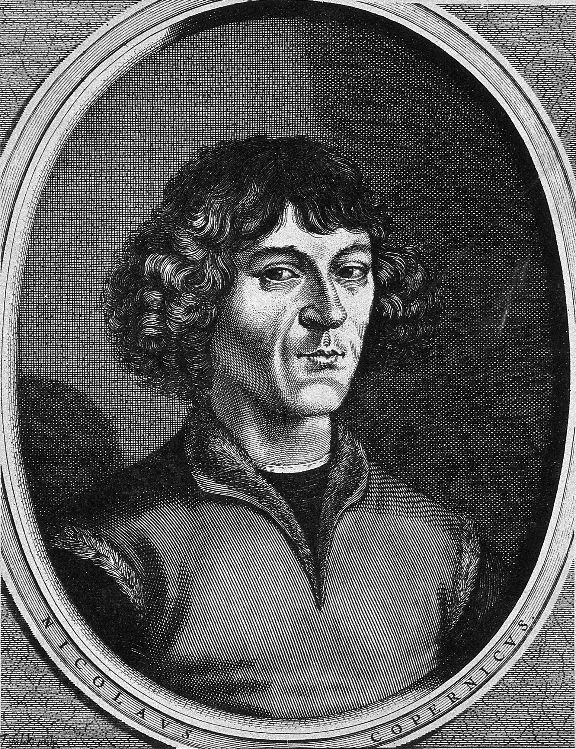 Nicolaus Copernicus